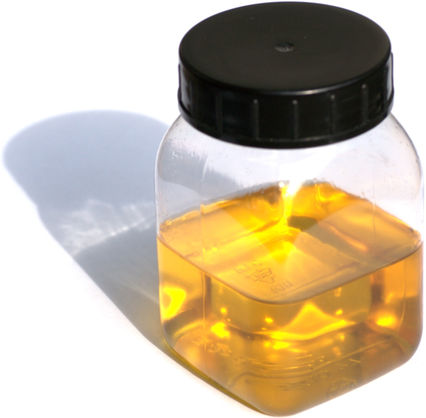 Shellac solved in alcohol